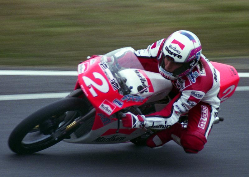 Fausto Gresini, at Japanse Grand Prix 1992